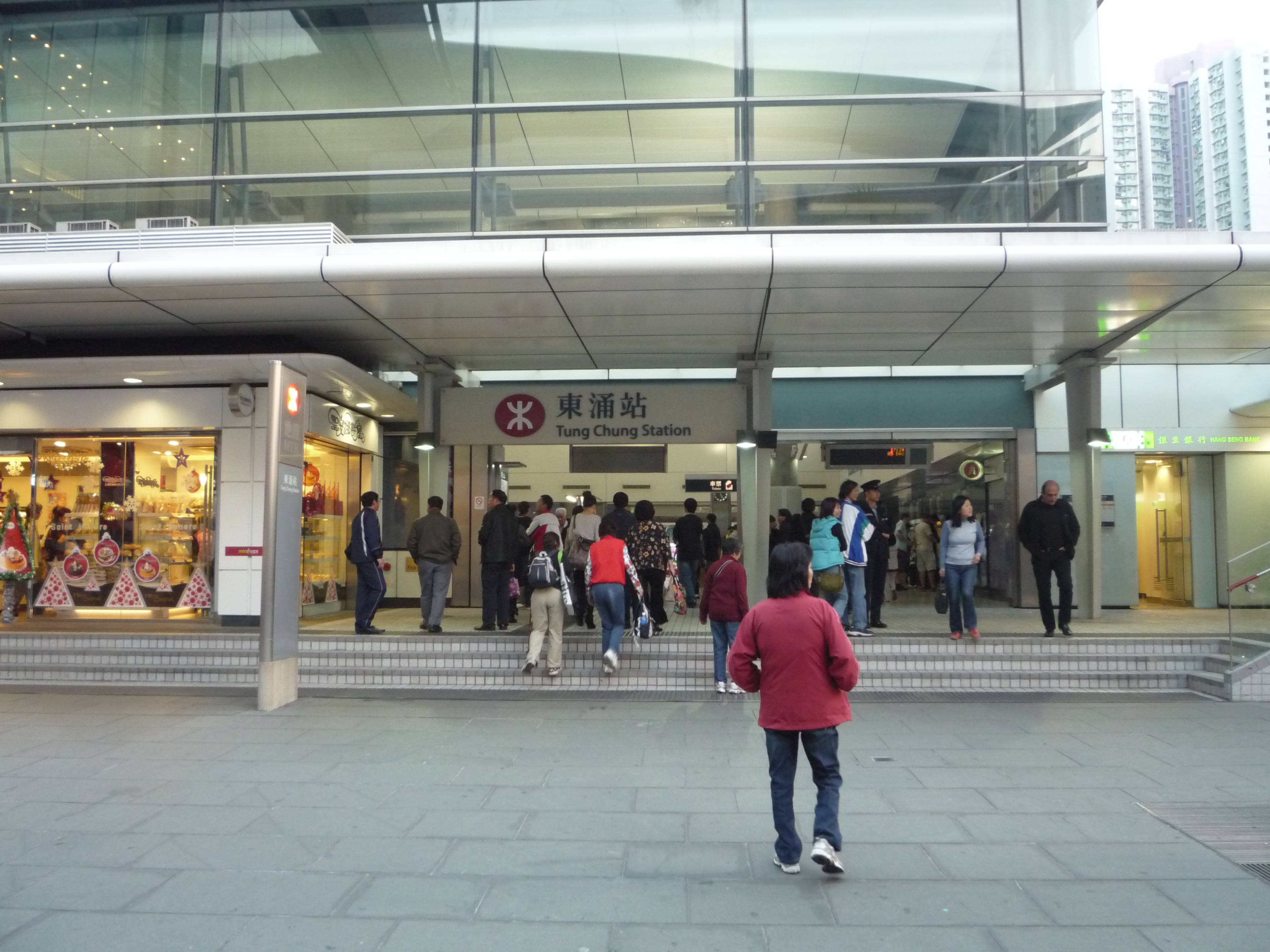 MTR Tung Chung Station Exit B